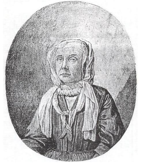 Depicted person: Catharina Cramer – German/Dutch midwife